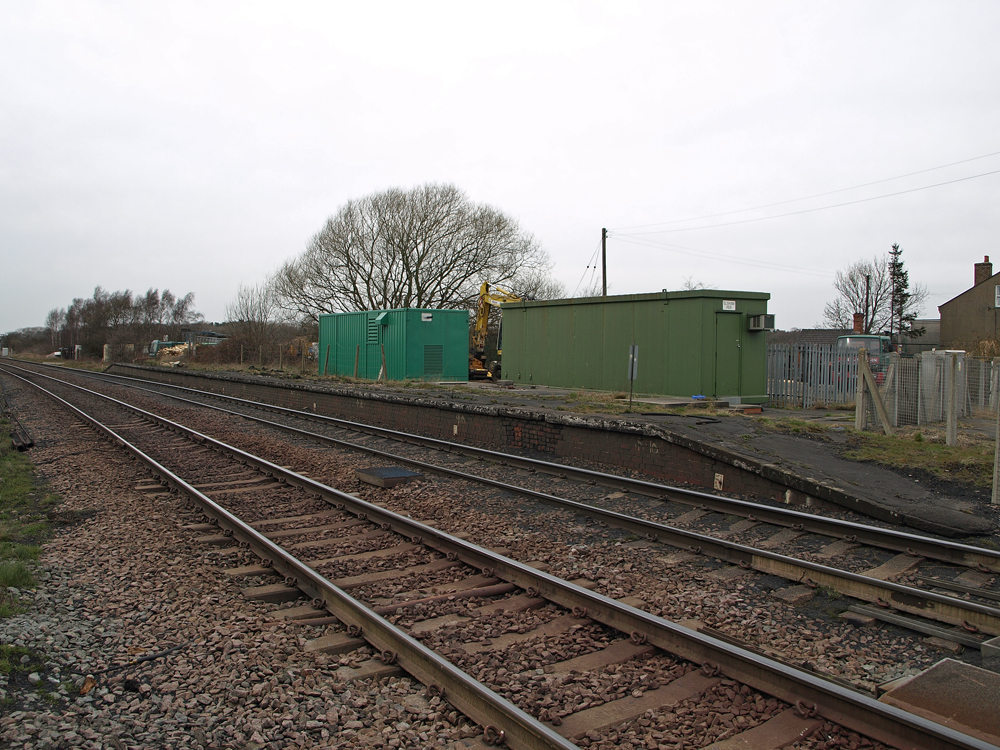 Derelict Platform at Elsham Station This platform is a relic of the long-closed Elsham station.